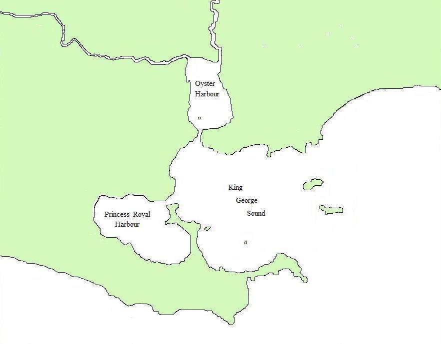 A map of King George Sound drawn using Paint